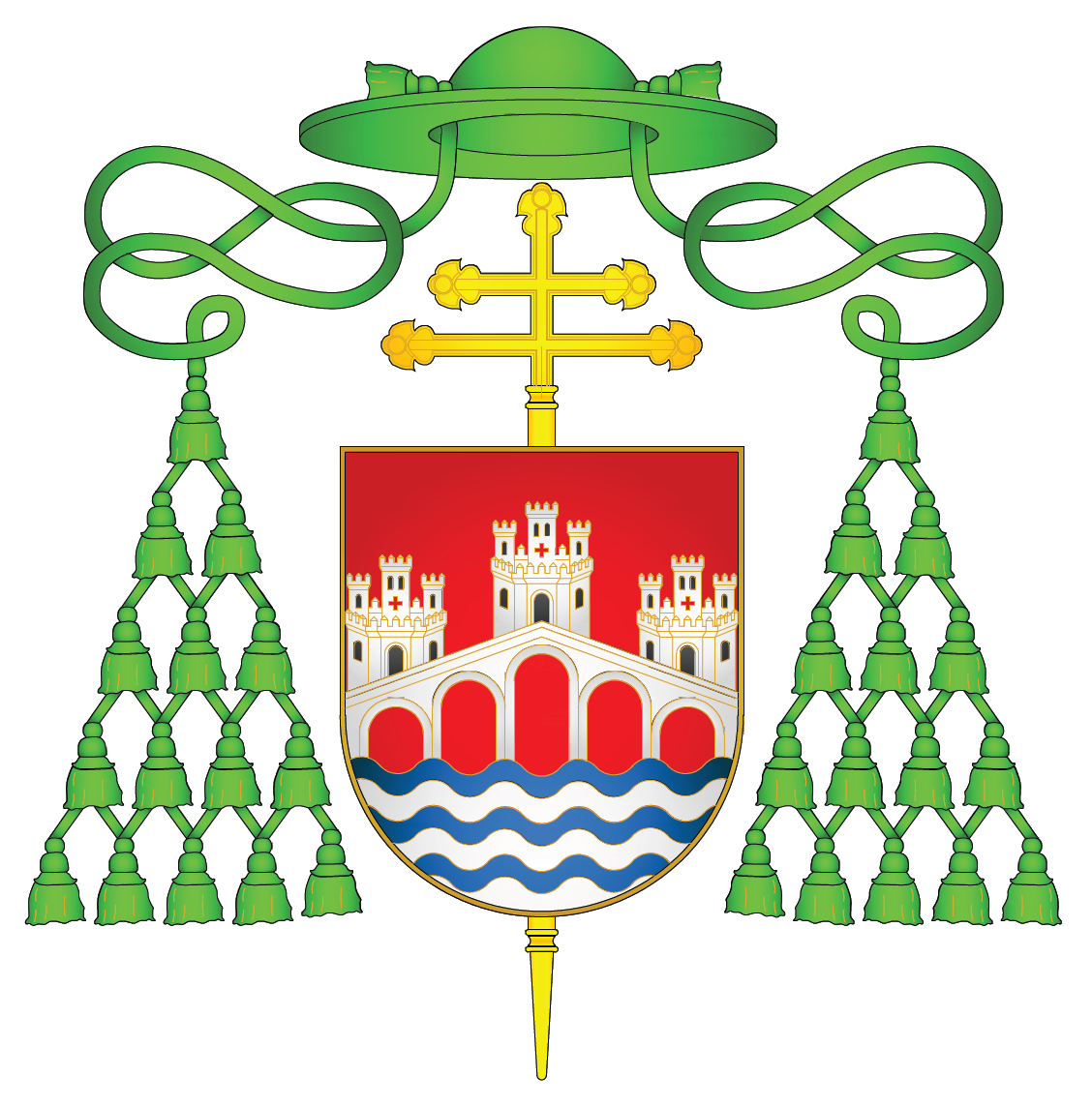 Coat of arms Blás Fernández de Toledo